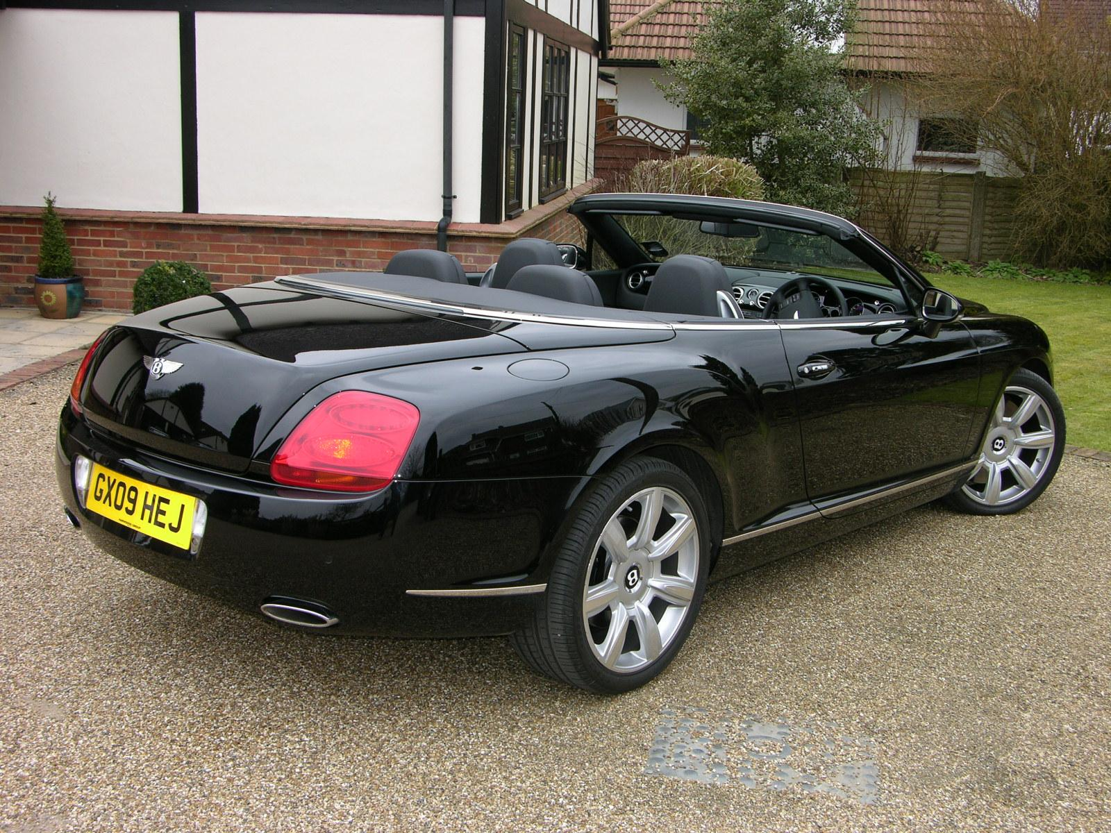 2009 Bentley Continental GTC